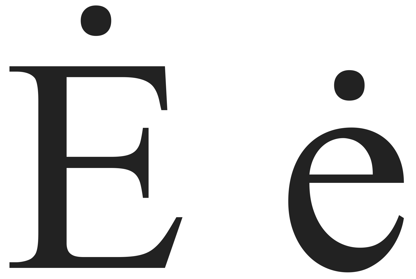 Doulos SIL glyphs for Majuscule and minuscule ė.